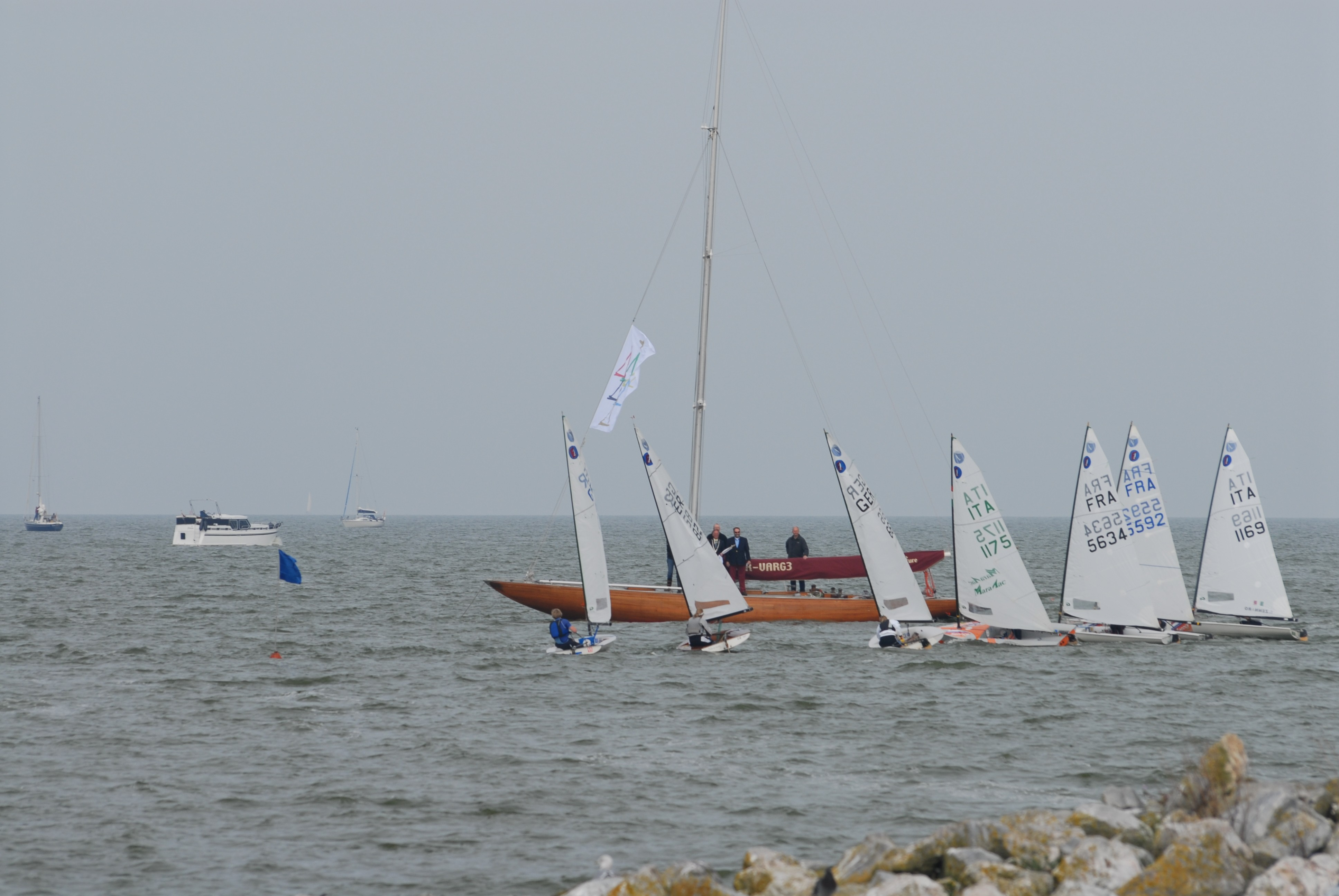 Picture of the Fleet Review as part of the 2008 Vintage Yachting Games Opening ceremony, Medemblik, The Netherlands